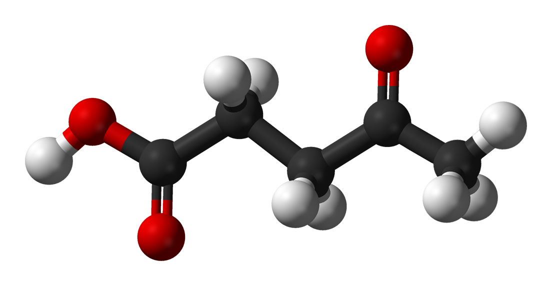 Ball and stick model of the levulinic acid molecule.